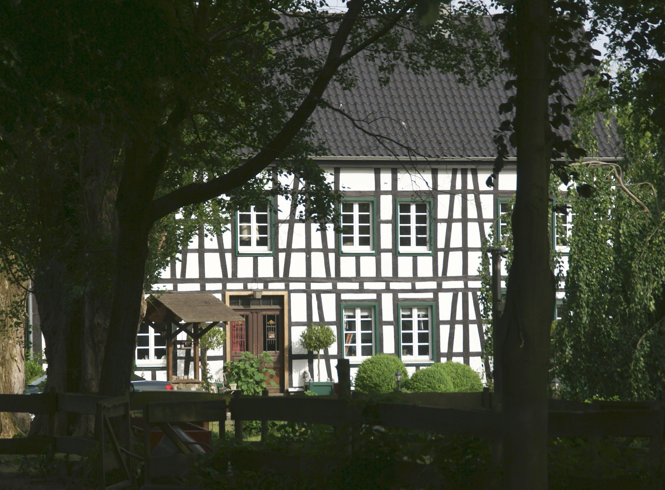 Former estate Elsfeld in Oberpleis located between Jüngsfeld and Bockeroth